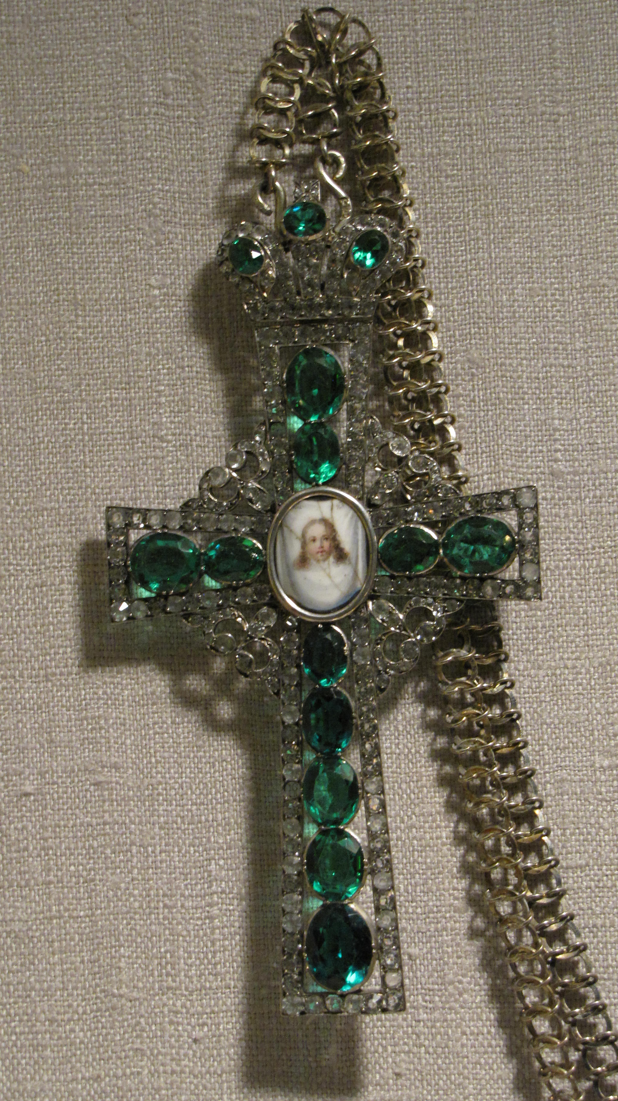 Bishop's pectoral cross and chain; made by Grigorii Pankrat'ev (active 1874-1908), Russia 1874-1896; Silver, Enamel, paste stones